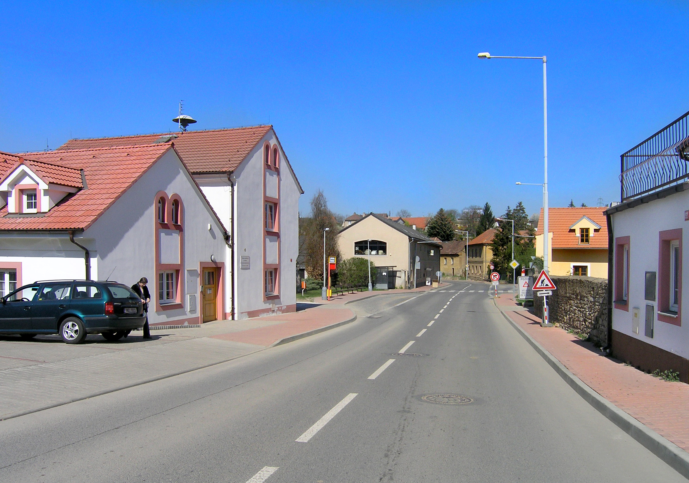 Cementářská street at Lochkov, Prague